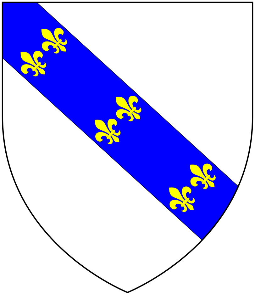 Arms of Clapham of Barnstaple, Devon: Argent, on a bend azure six fleurs-de-lys or, two, two and two, (a crescent for difference).(Vivian, Lt.Col. J.L., (Ed.) The Visitations of the County of Devon: Comprising the Heralds' Visitations of 1531, 1564 & 1620, Exeter, 1895, p.191). This family was a junior branch of Clapham of Beamsley, Yorkshire (Vivian, p.191 & see: Clapham, Barbara, The Clapham family : the ancient family of Clapham : the Claphams of Beamsley, Co. York : the Claphams of Batley & Birstall, Hurst Village Pub., c.1993)